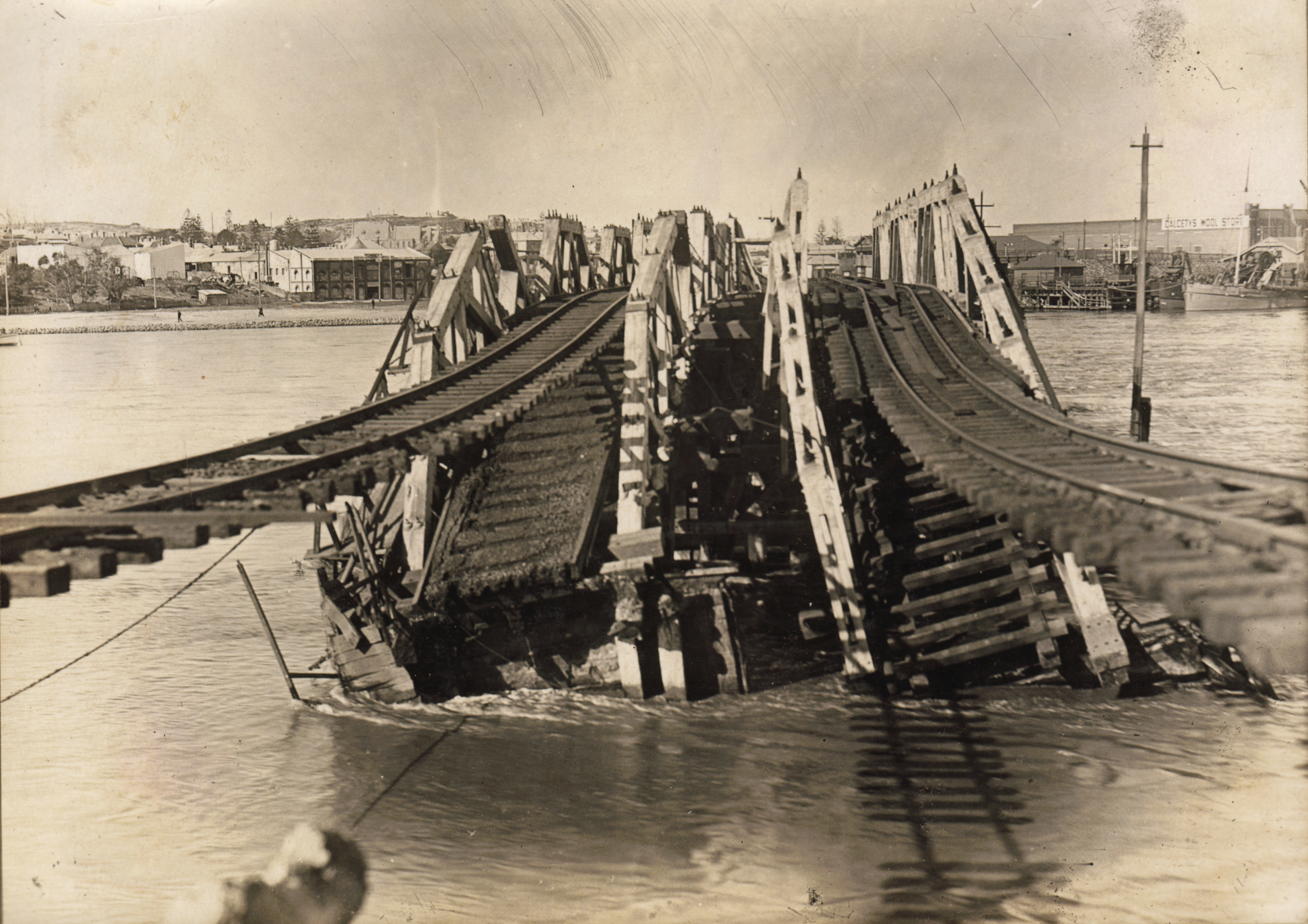 After the floods of 1926. A train had just passed over, then the bridge collapsed. Photograph by W.E Fretwell. now relevant to be licensed as PD-au